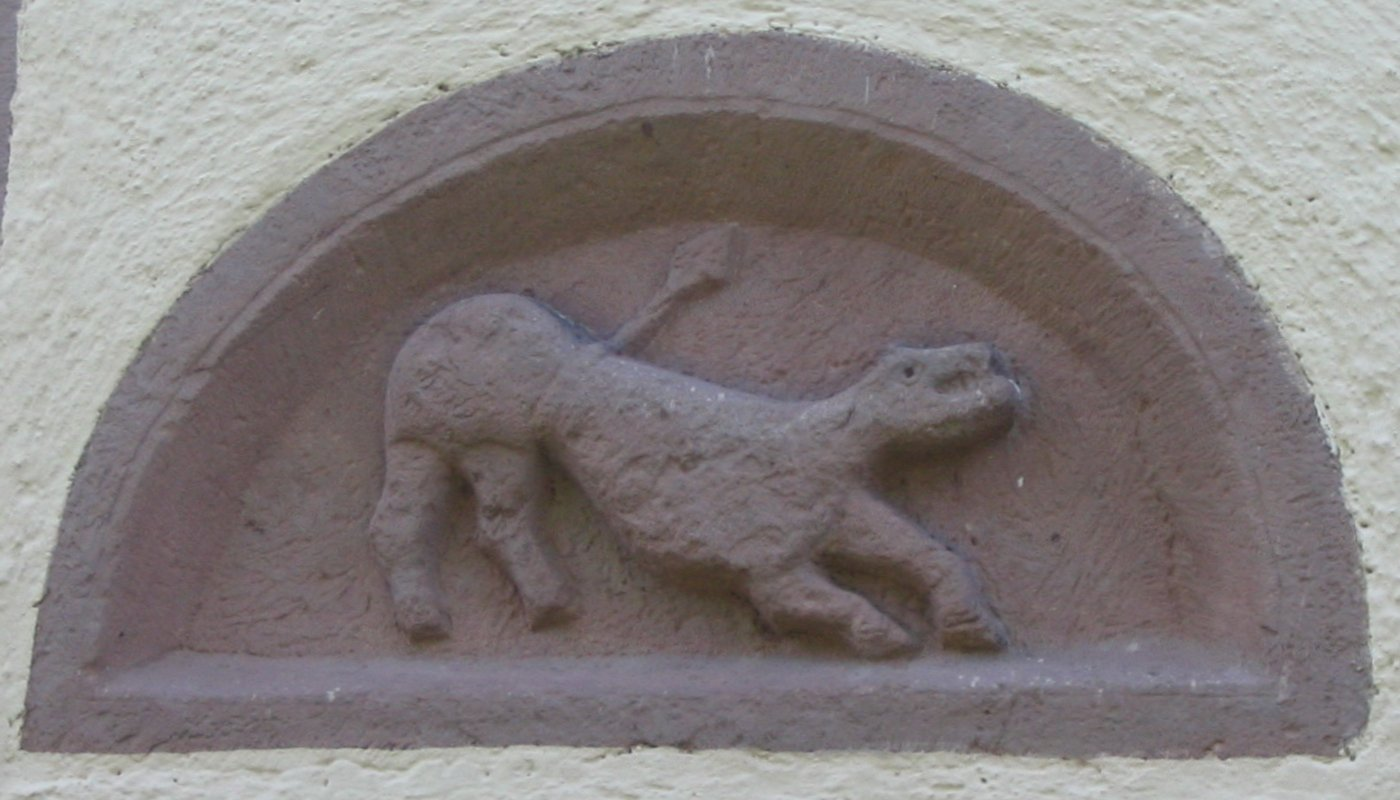 The springende Stier (jumping bull) at the Stephanskirche (church) in Straubenhardt, Germany